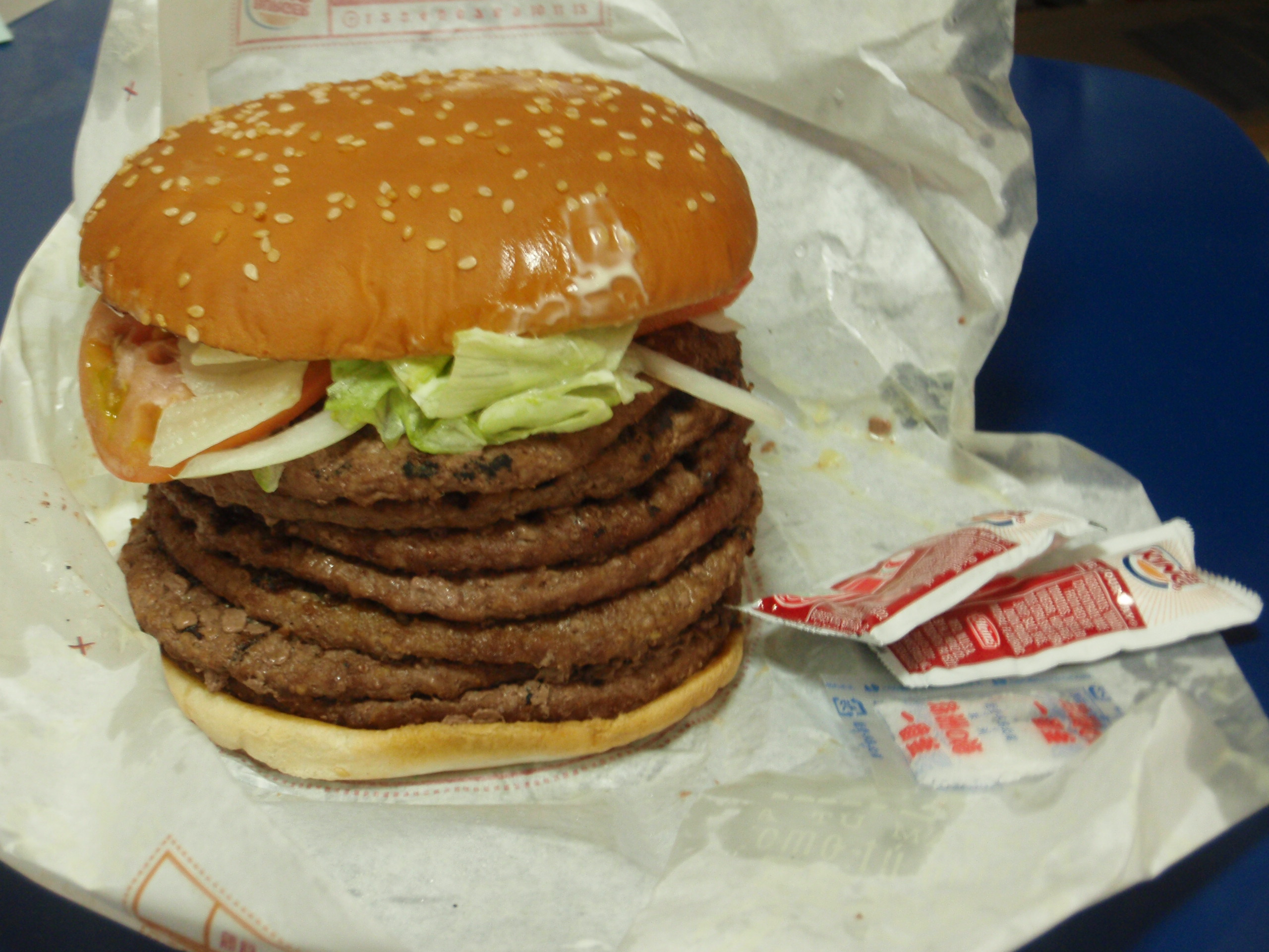 Burger King Windows7 Whopper sold in Japan, 2009